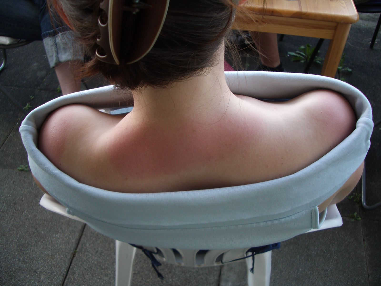 A young woman showing sunburn in her neck and shoulders.